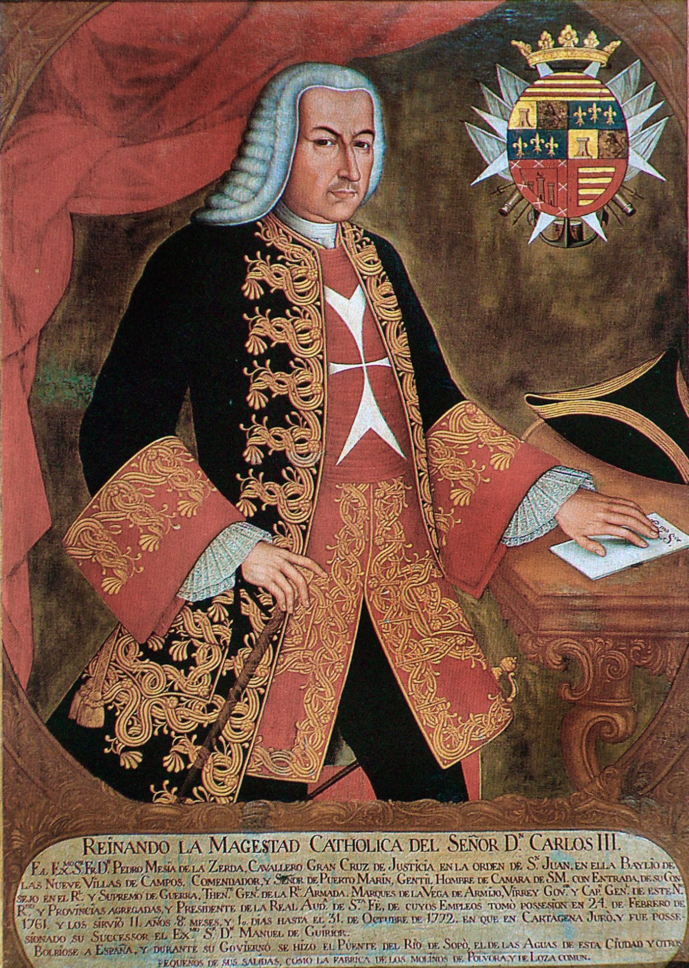 Pedro Messia de la Cerda, Viceroy of New Granada during the rebellion of 1769